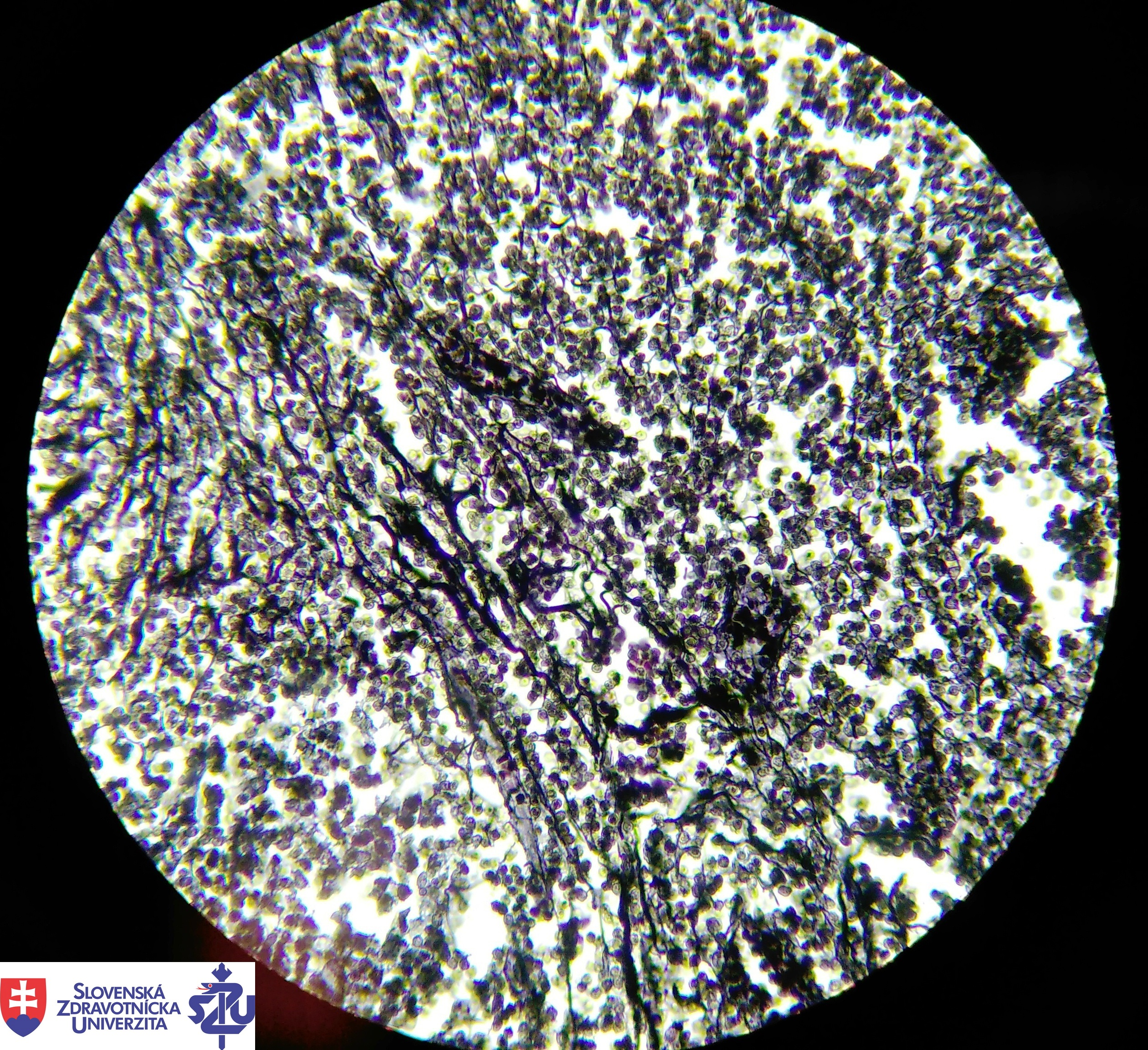 Reticular fibers in reticular connective tissue (lymph node) (Silver impregnation)